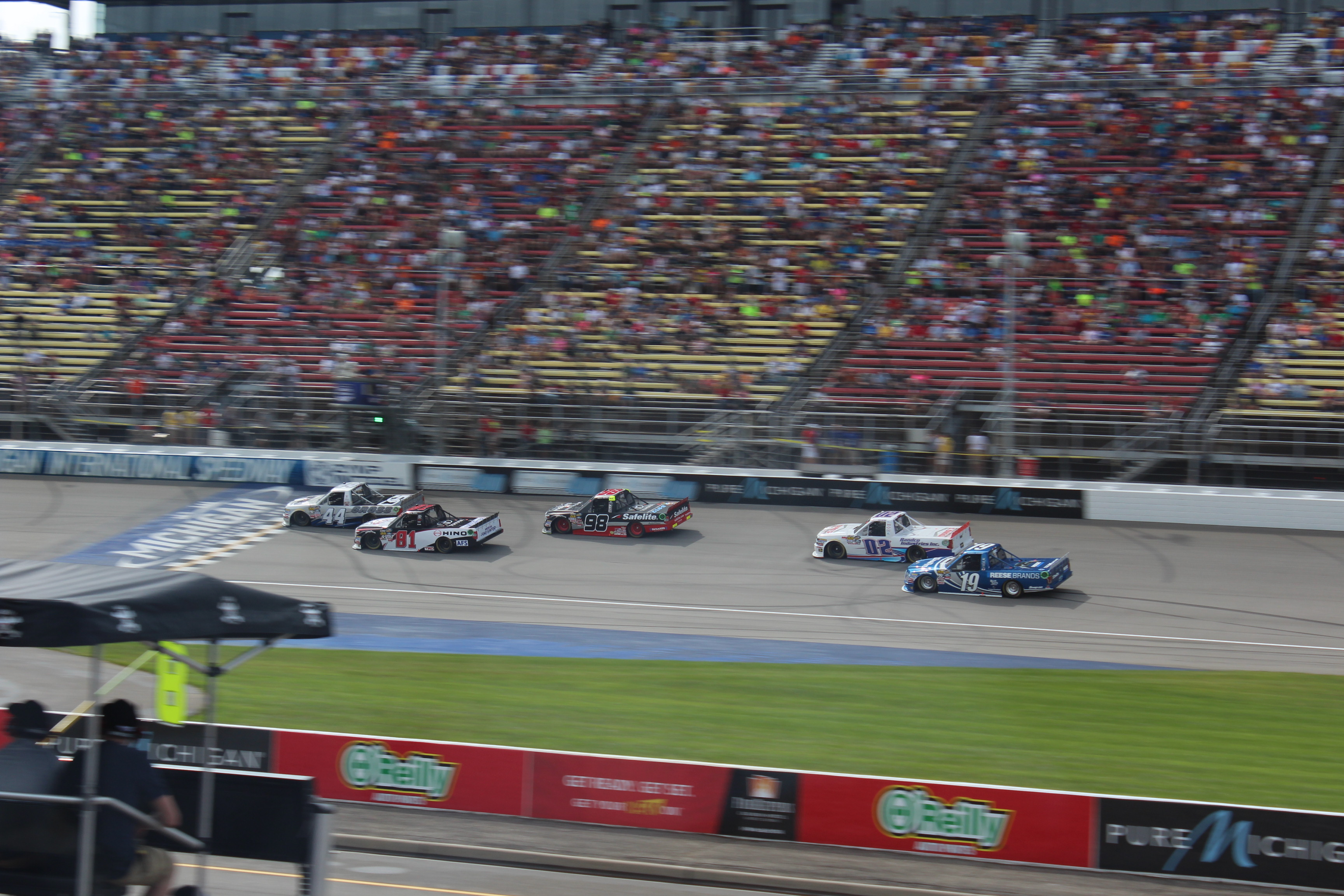 A pack of cars run in-the-draft during the early stages of the "Careers For Veterans 200" on August 27, 2016.